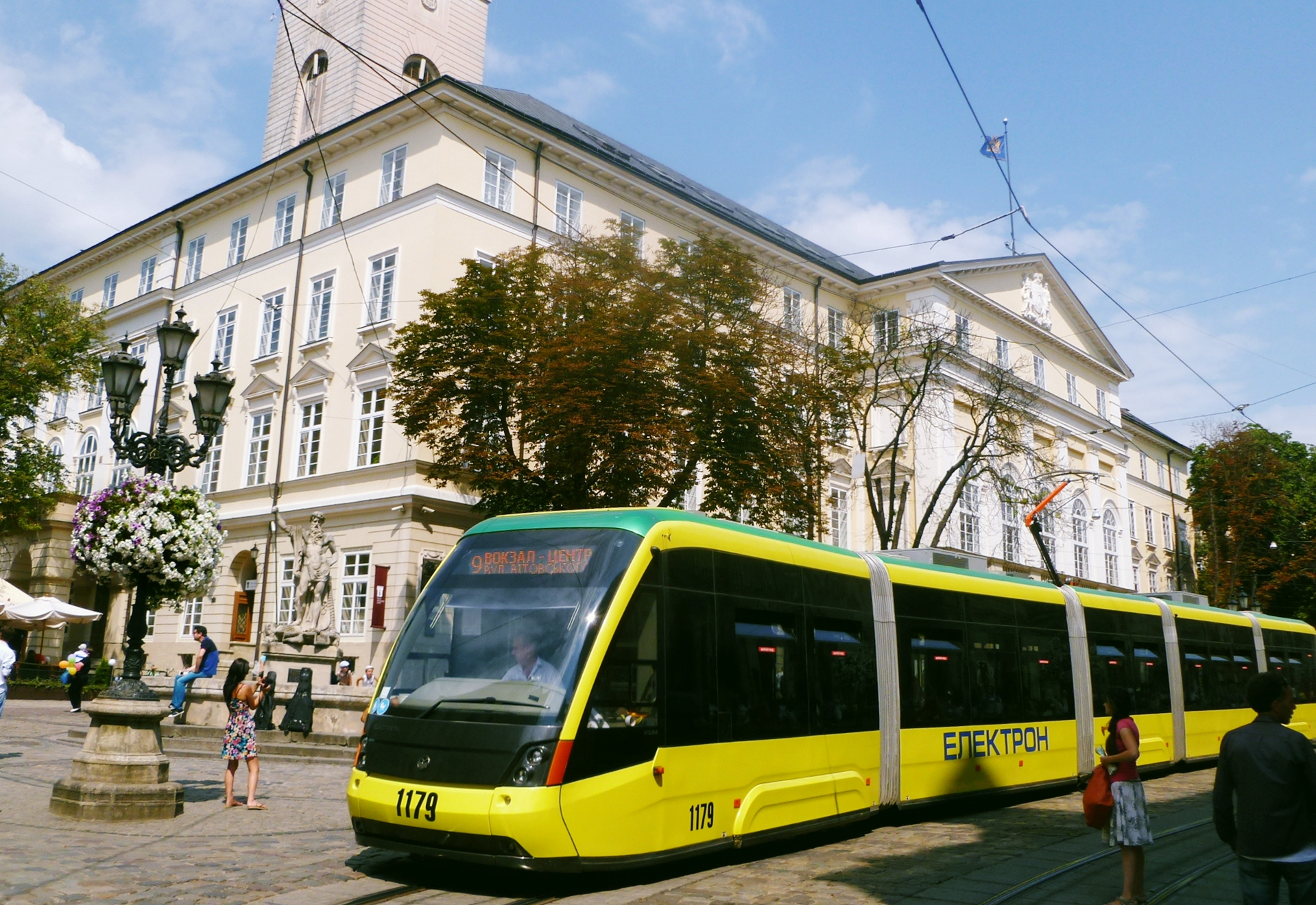 Lviv tram on the Rynok Square